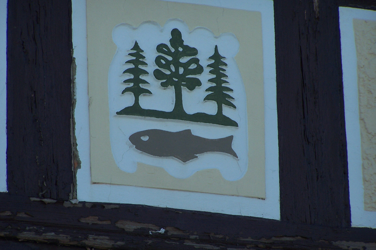 The local coat of arms motive at a front of a timber framed house in Waldfisch.